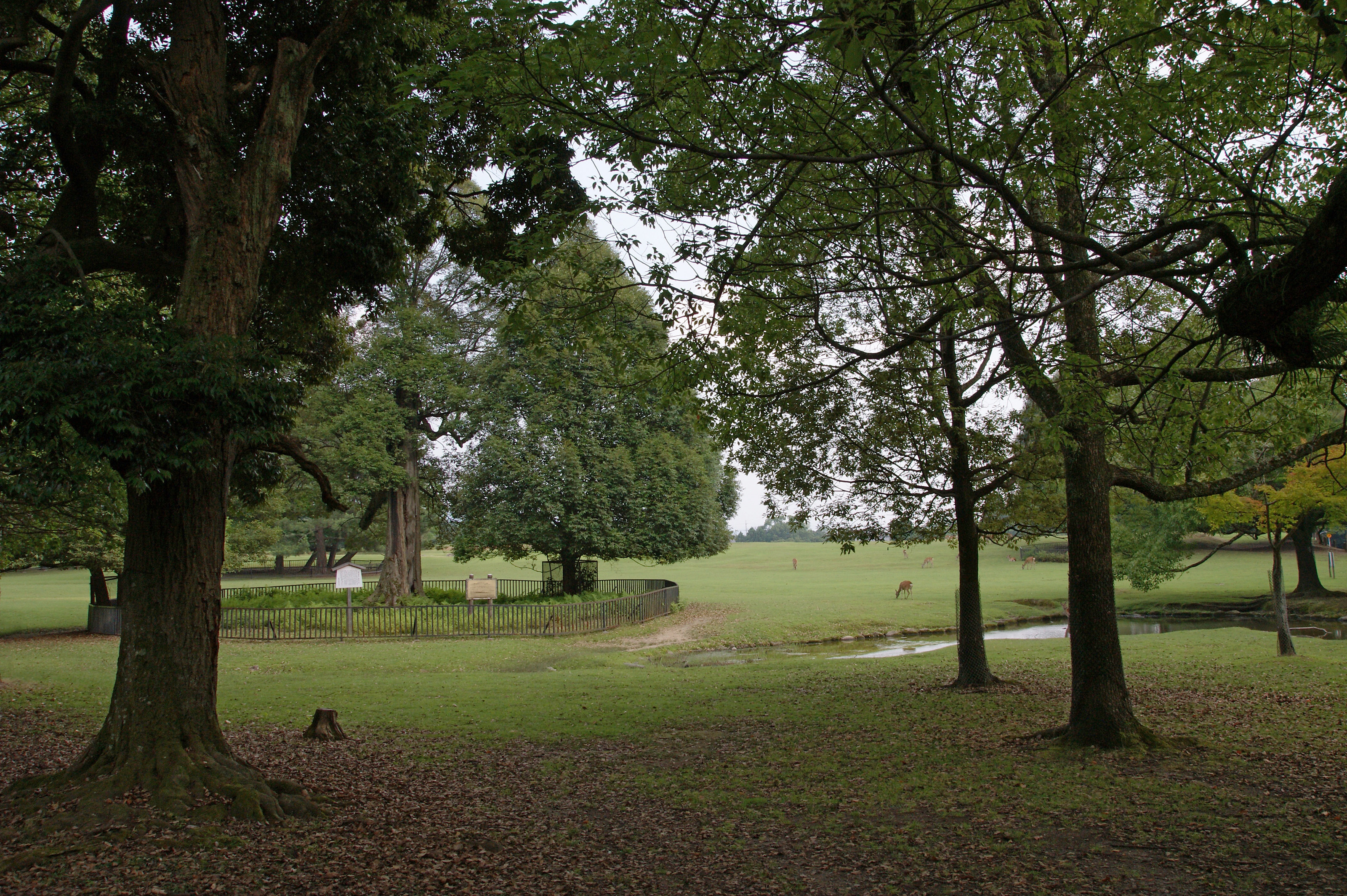 Tobihino of Nara Park in Nara, Nara prefecture, Japan